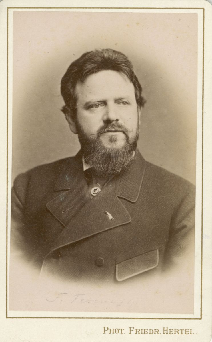 Artist: Friedrich Hertel Date/place: Unknown date/Weimar Subject: Franz Ferenczy Medium: Photographic posetive Notes: German tenor. Born in Hungary 12.12. 1835 - dead in Weimar 27.02. 1881 Original belongs to the Archives at [#//bergenbibliotek.no/digitale-samlinger” Bergen Public Library]